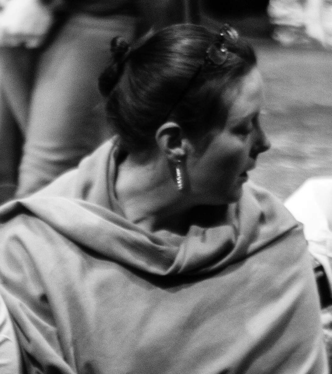 American theater director, actor, and creator Kim Weild working on the production Soot and Spit.